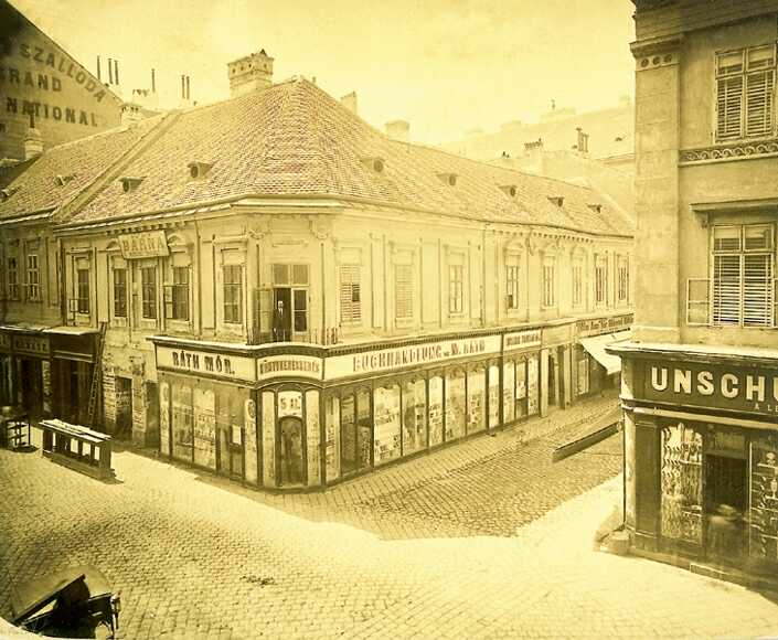 Ráth Mór's bookstore